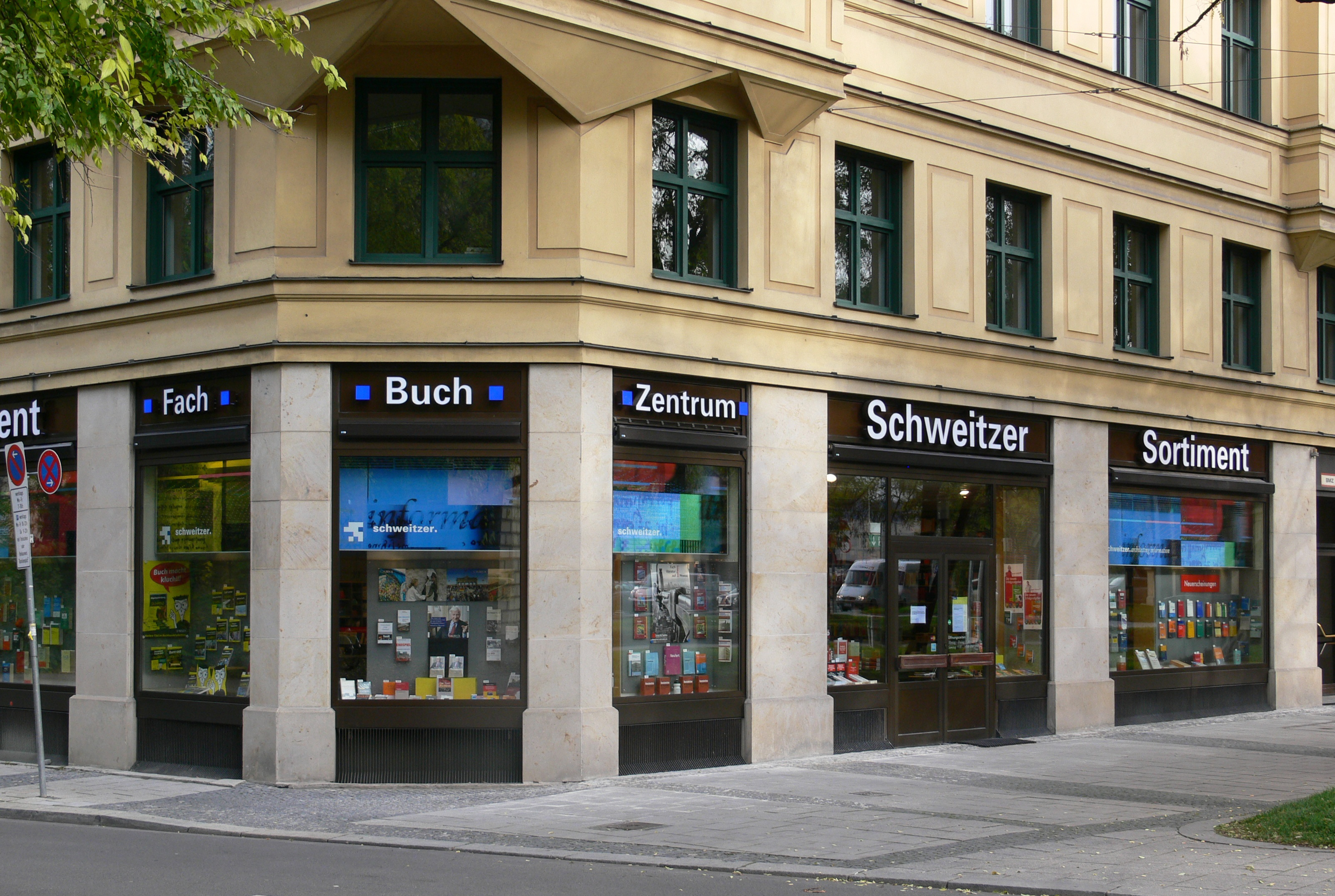 Munich (München), Germany, Lenbachplatz, Schweitzer Sortiment (bookshop)